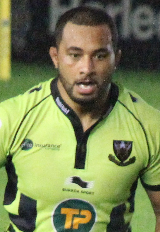 Harlequins vs Saints: Round 2 of 2013-2014 English Premiership